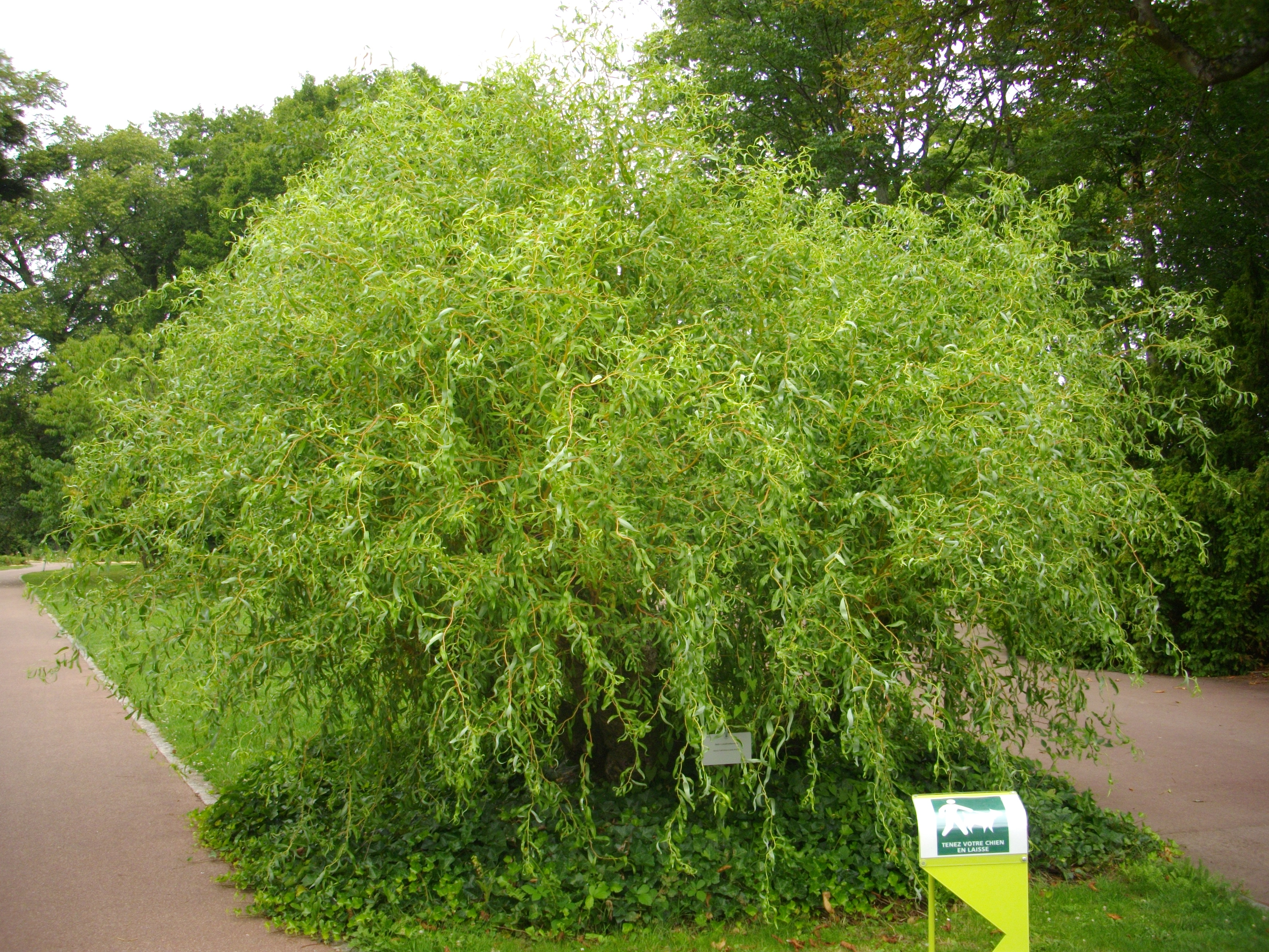 La Source floral garden, Orléans (Loiret, France)